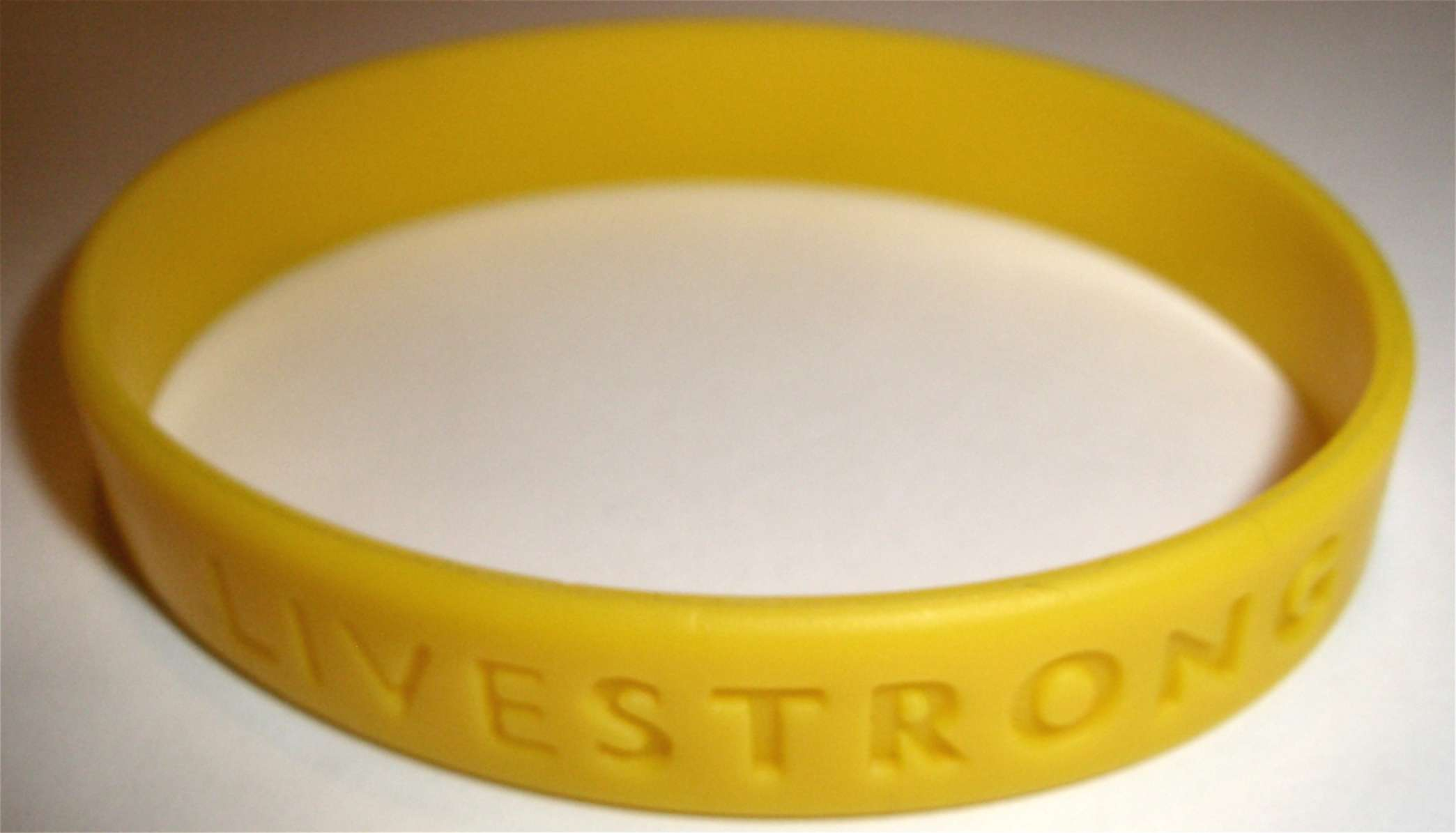 Photo of a Livestrong wristband lying on a sheet of white paper. The image have been cropped, ajusted for brightnes and contrast and subjected to fade correction, sharpen and a bunch of other filters using Paint Shop Pro.